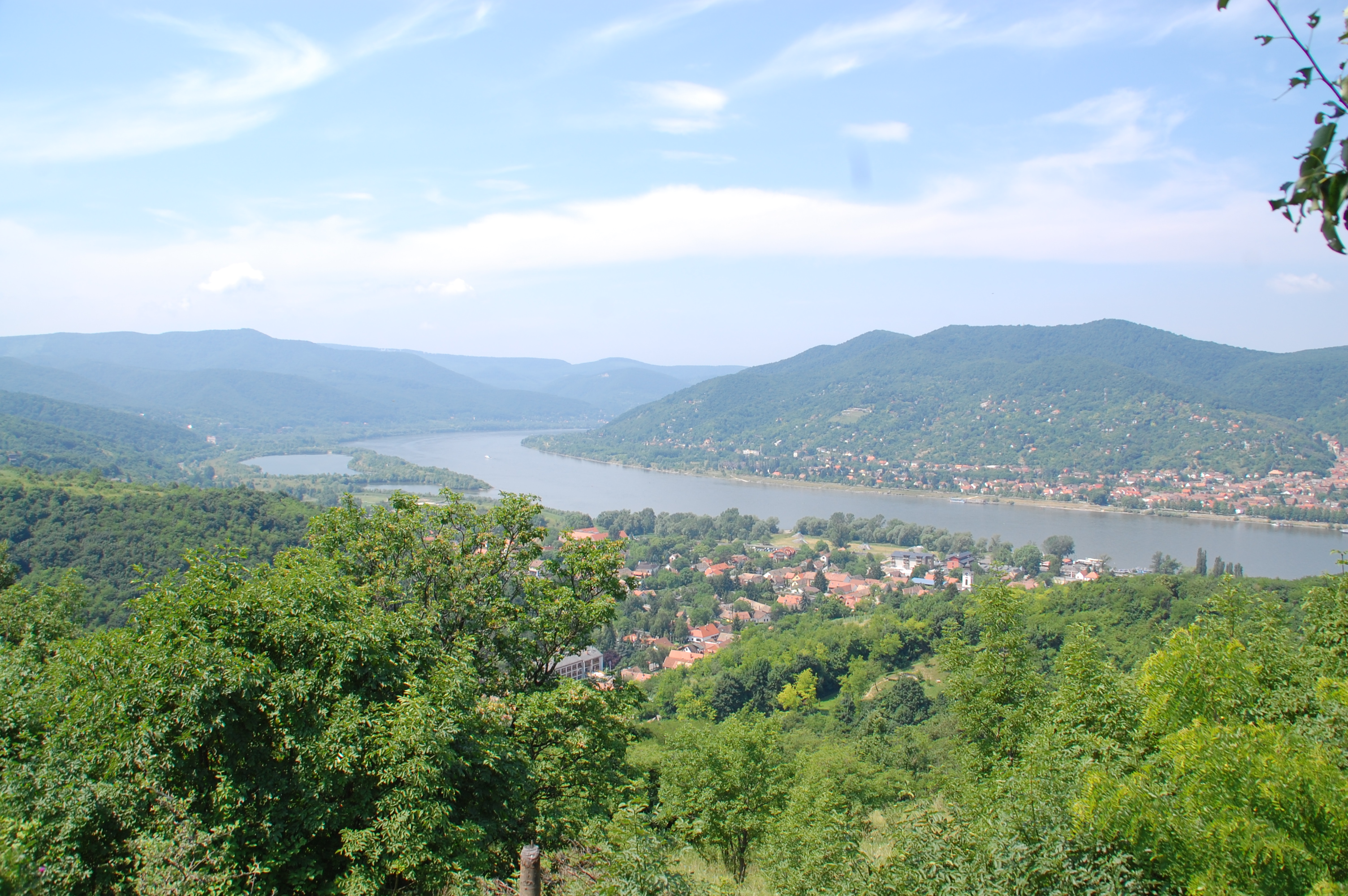 Meetup of the biologists of the German Wikipedia (de), 2011 in Dunabogdány, Hungary; Visegrád